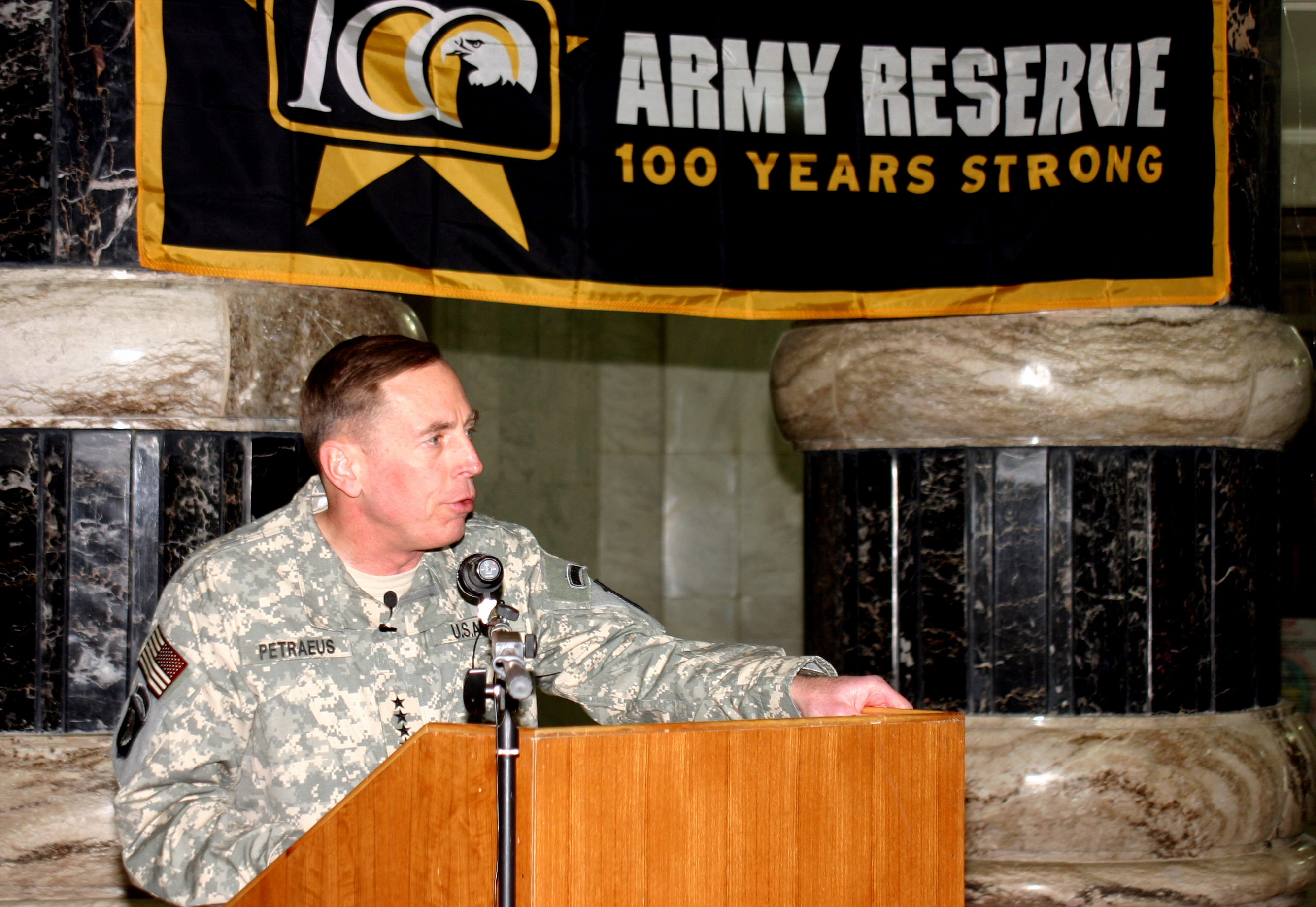 U.S. Army Gen. David H. Petraeus, MultiNational Force Iraq commander, gives his opening remarks at the 100th Army Reserve birthday mass re-enlistment, hosted in the rotunda at Al-Faw Palace, Camp Victory, Iraq. Petraeus commended the troops on their sacrifices and decision to re-enlist.